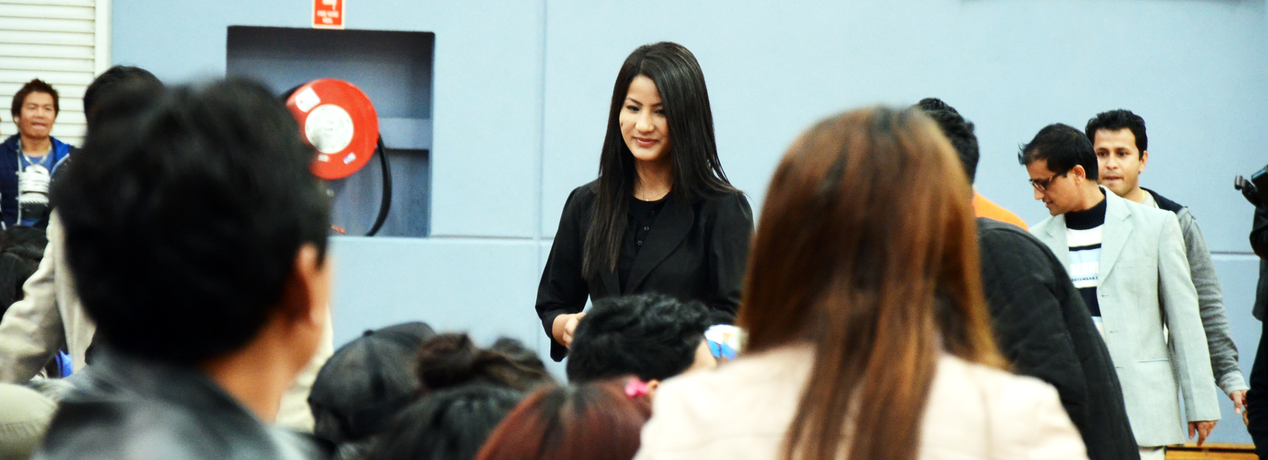 Sipora Gurung attending Nepalese Sipora Volleyball Cup 2013 in Sydney, Australia